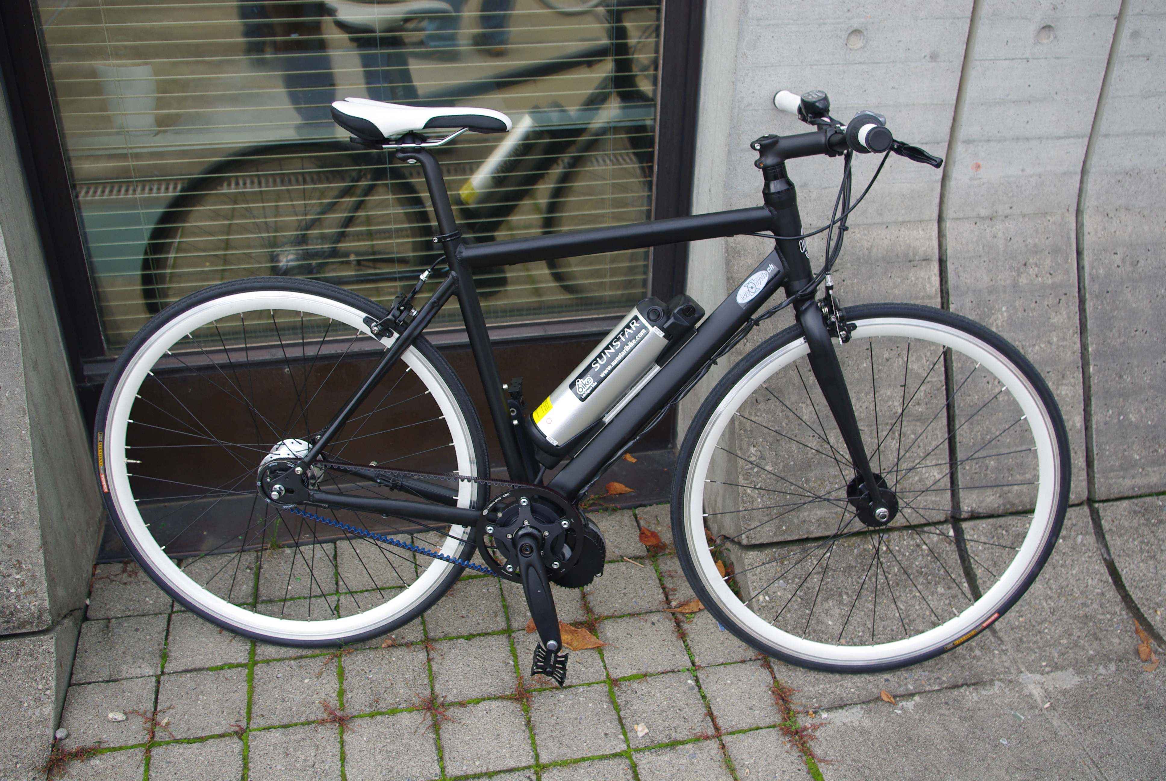 Sunstar electric bike displayed during the japanese festival in Geneva on the 7th october 2012